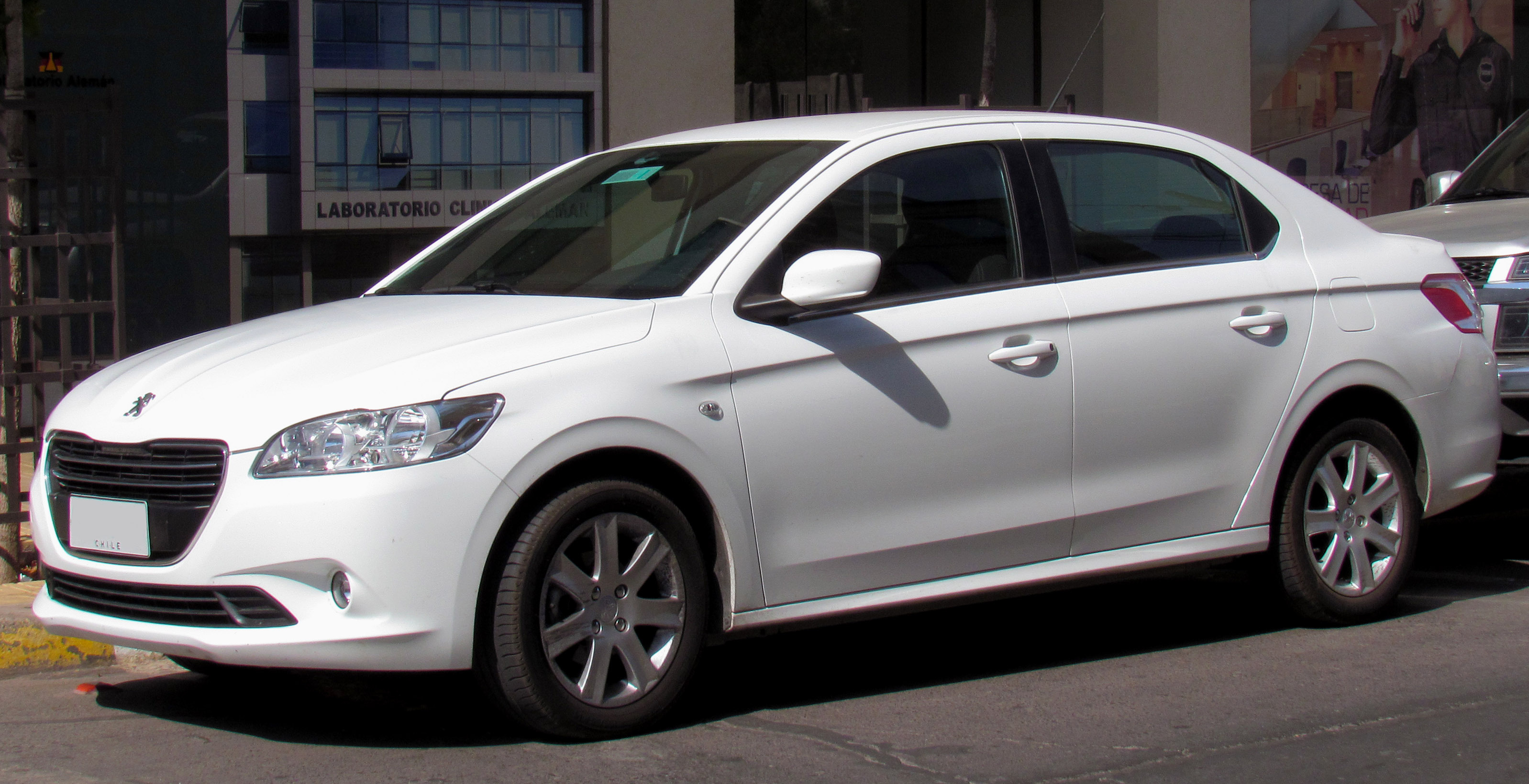 Also sold as Citroen C-elysee